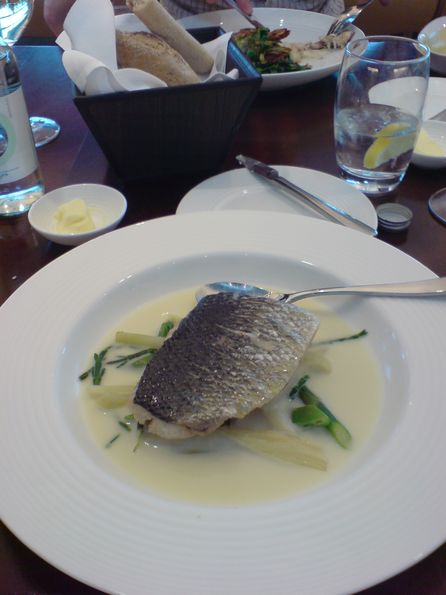 Sea bream on rock samphire and green stuff with a veloute of something. Ramsay's plane food.